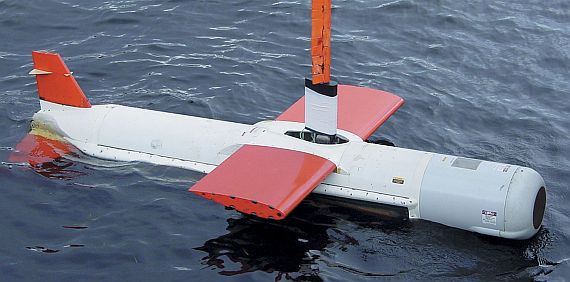 Towed vehicle at surface being readied for operations.